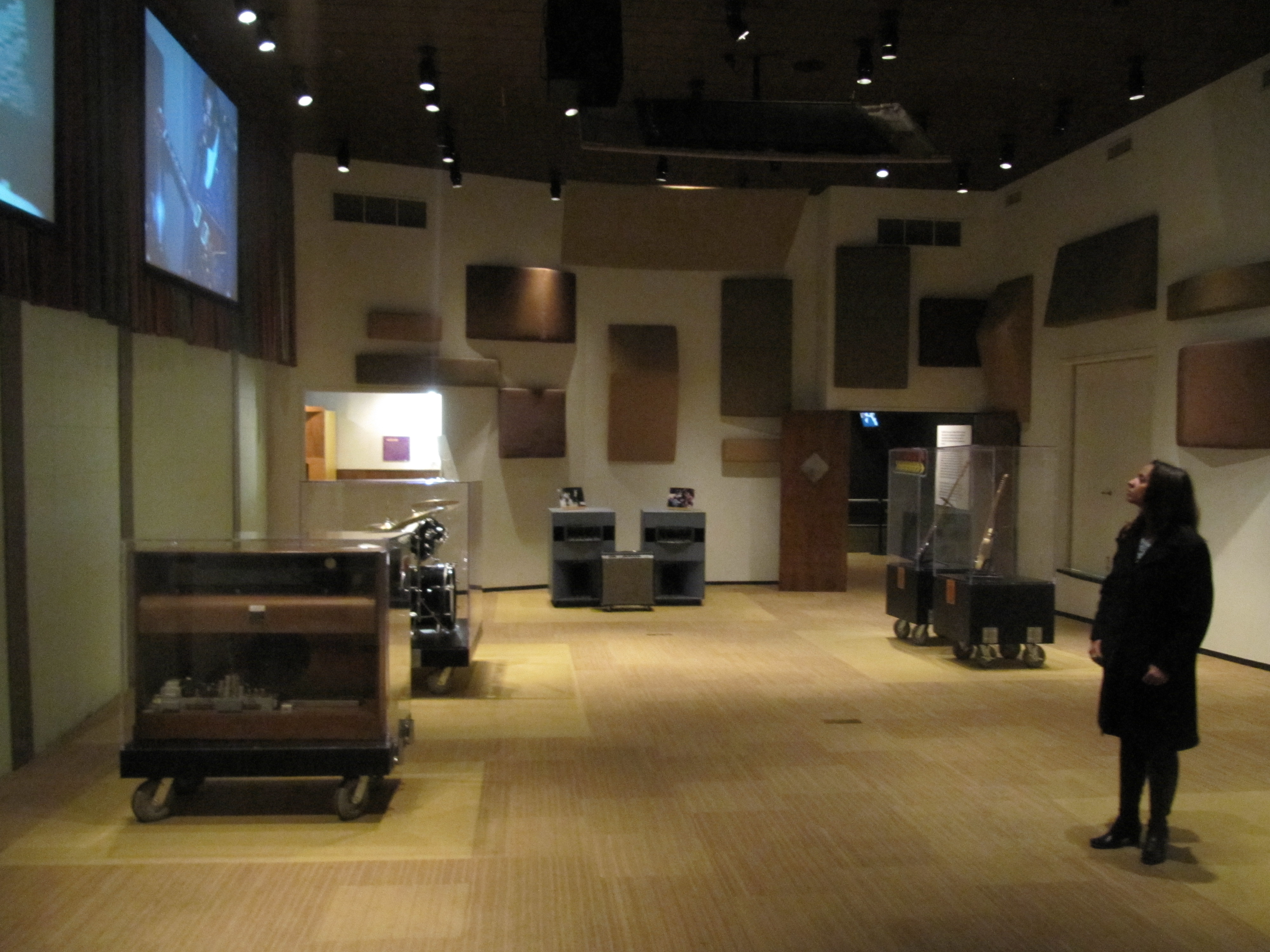 Stax Records Memphis Courtney recording studio